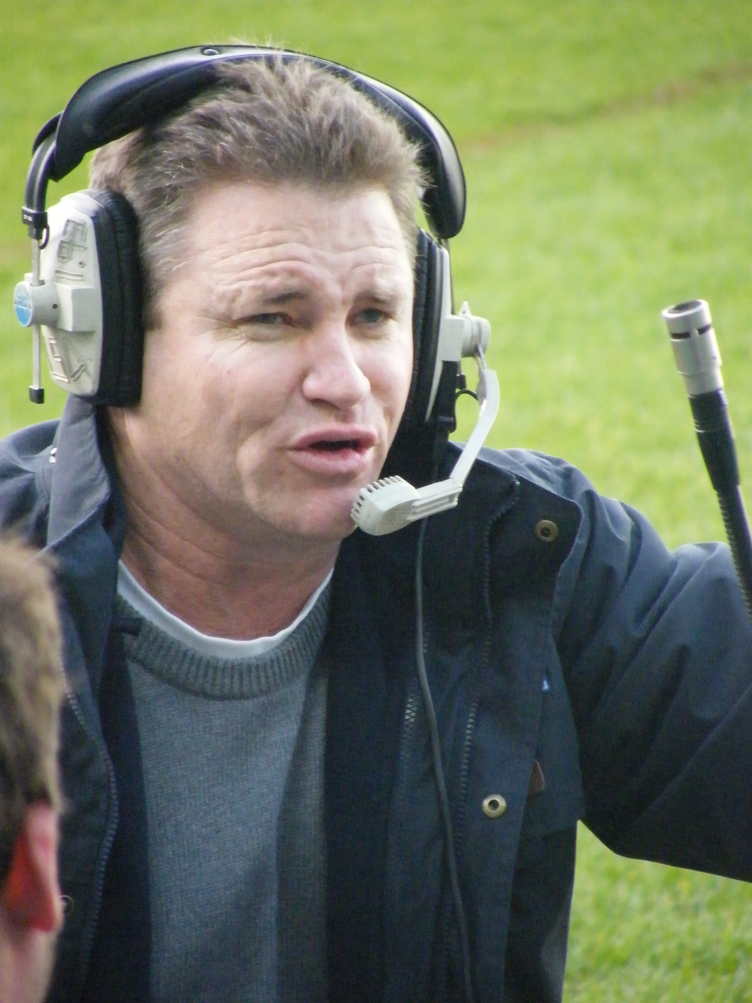 Former Balmain and Parramatta winger, now part of the Channel Nine Sydney Sports team.